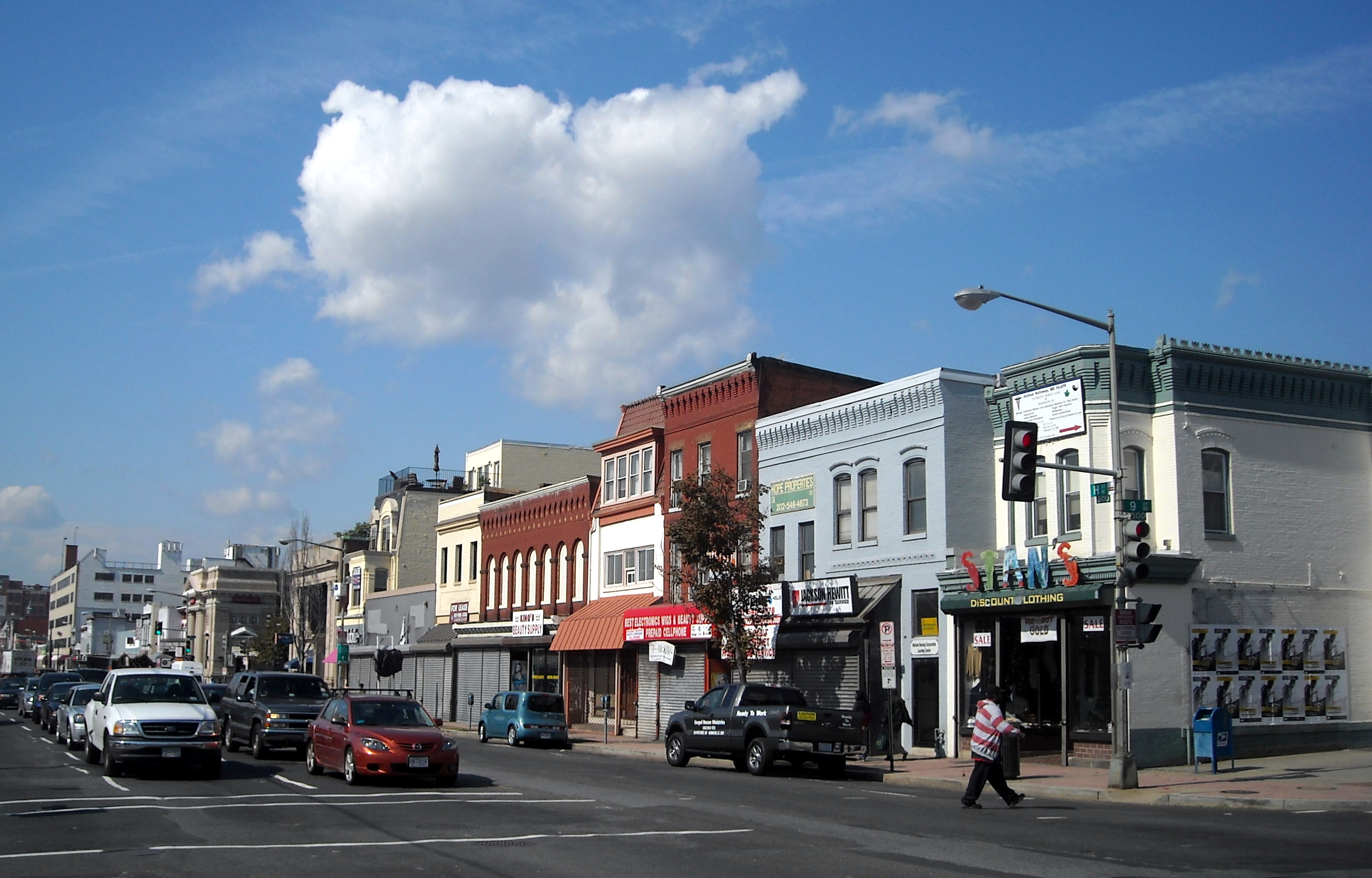 Shops located on the 800 block (north side) of H Street, N.E., in the Near Northeast neighborhood of Washington, D.C. (as viewed from the intersection of 9th and H Streets, N.E.)